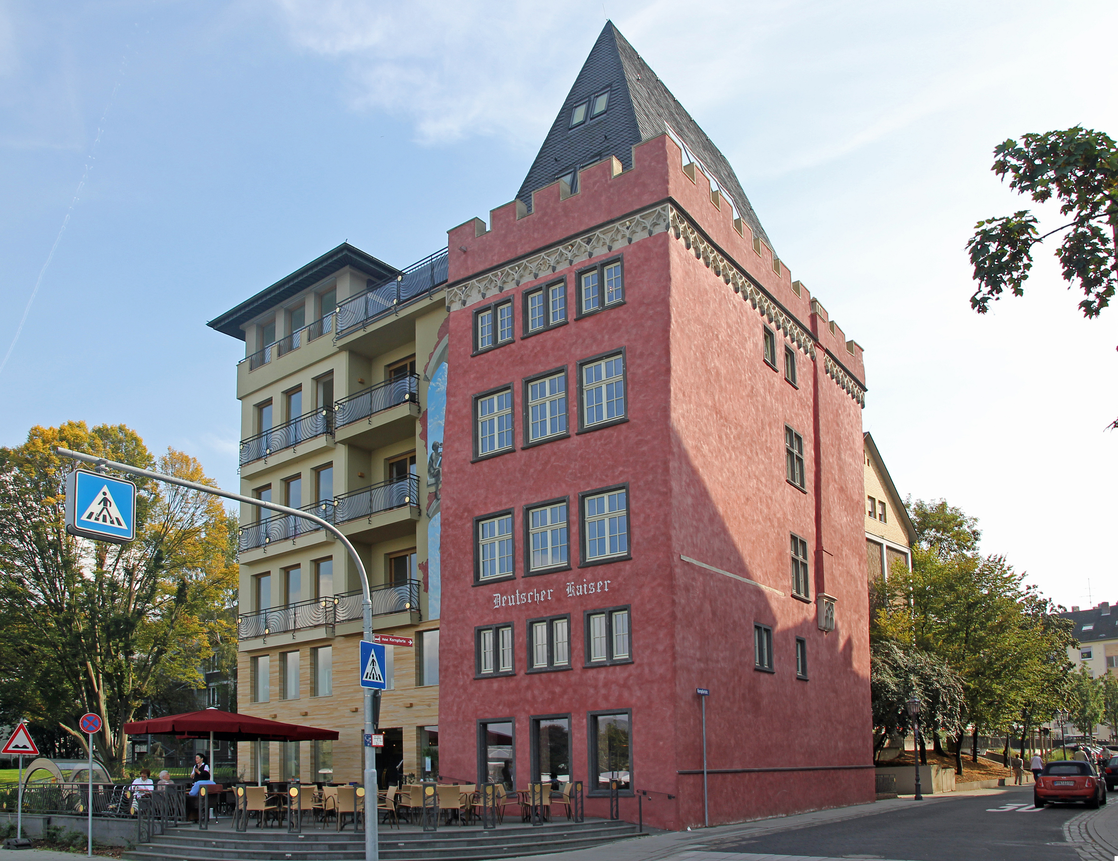 Deutscher Kaiser in Koblenz